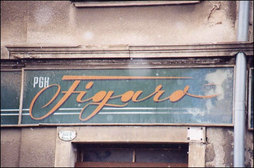 Signboard of a former socialistic producer`s cooperative (here: hairdressers) in Pirna.